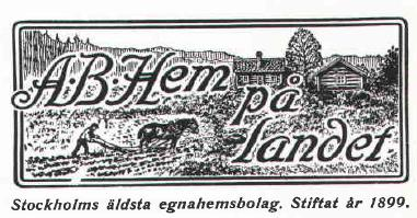 Picture from swedish brouchure from 1899.